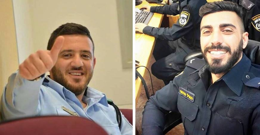 Victims of the terrorist attack in Jerusalem, on 14 July 2017